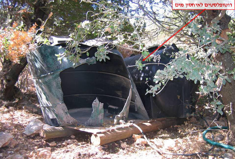 September 5, 2006 During a Golani Brigade operation in the western sector of Lebanon, Israeli forces uncovered weaponry, a tunnel system, and underground bunkers that were used by the terror organization Hezbollah. Pictured (written in Hebrew at the top): Water containers for the underground bunker.